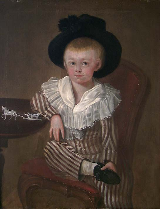 Portrait of James Collett (1787–1795) of the Collett family (Norway); painted ca 1792 by Heinrich Christian Friedrich Hosenfelder